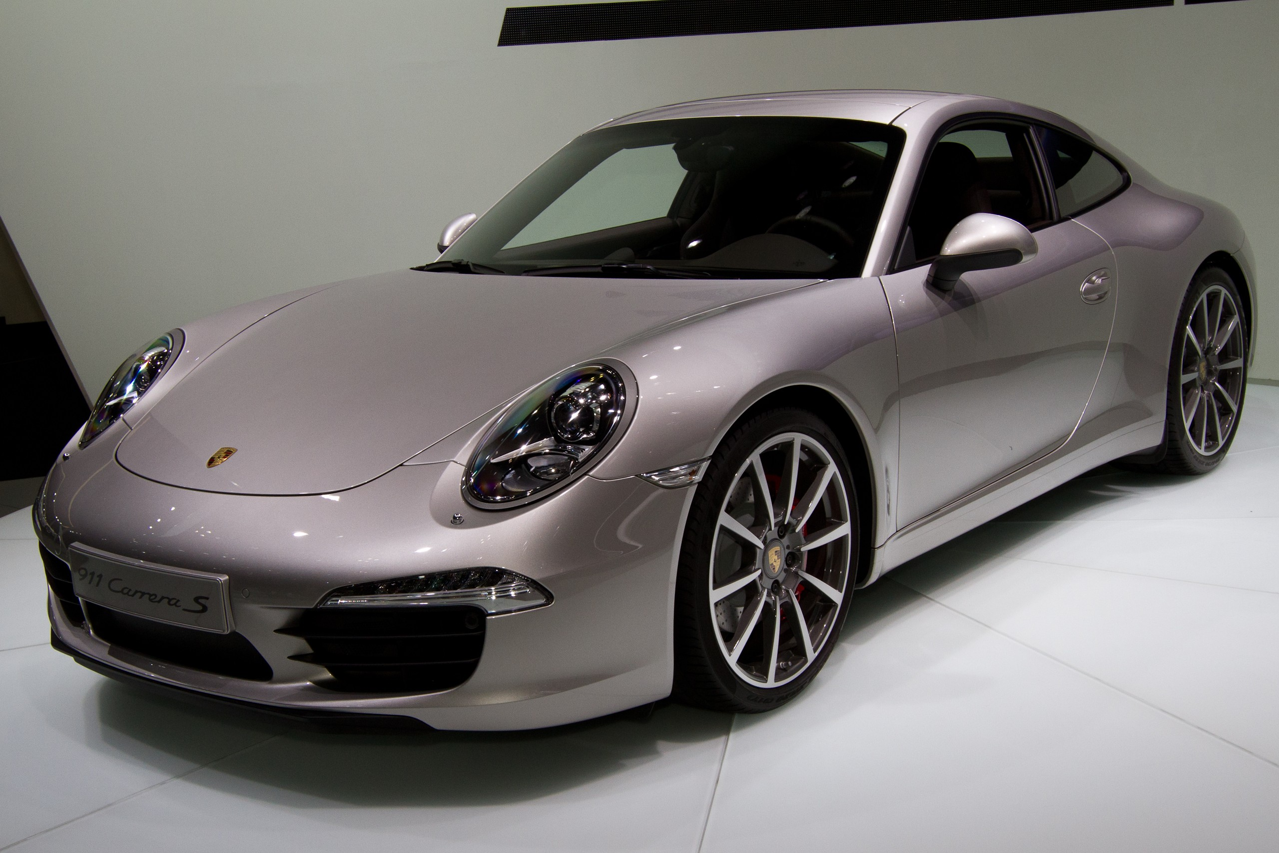 Tokyo Motor Show 2011: Porsche 911 Carrera